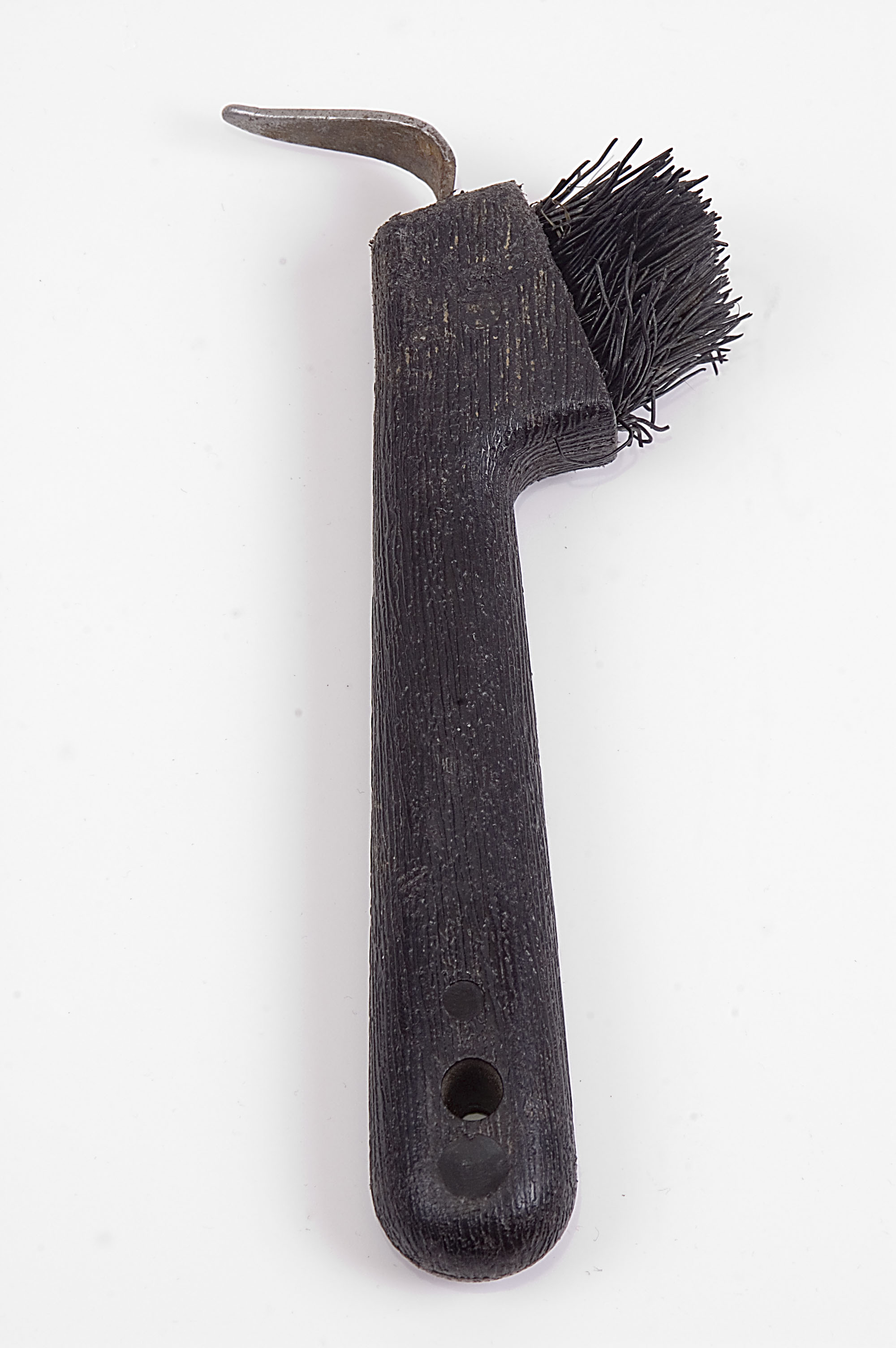 Hoof pick